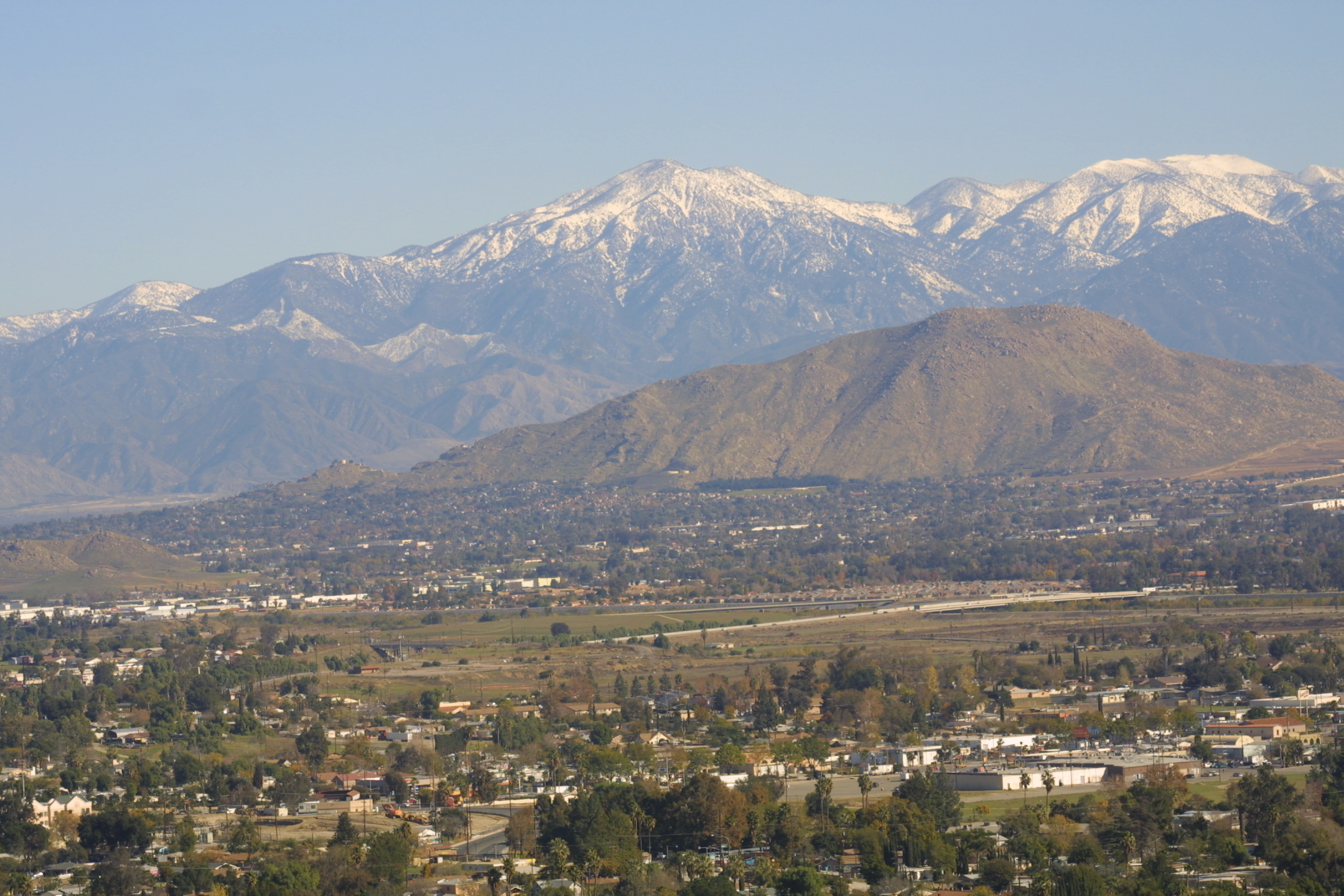 Southeast view of Mount Rubidoux and the City of Riverside, from Indian Hills. With Mount Baldy and other peaks of the San Gabriel Mountains in backround.